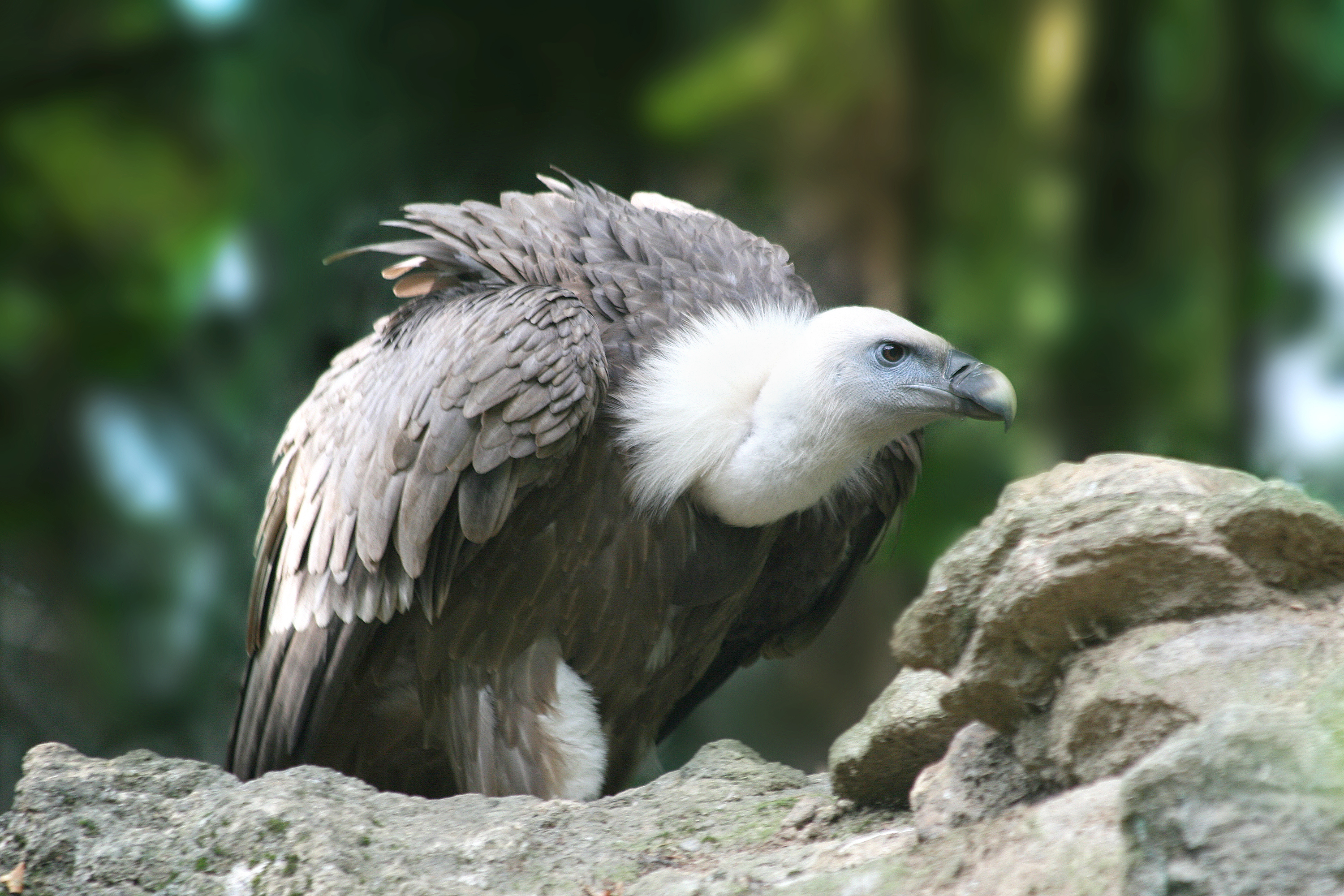 Description: The Griffon Vulture, Gyps fulvus is an Old World vulture in the bird of prey family Accipitridae. It has the most subspecies of any vulture.